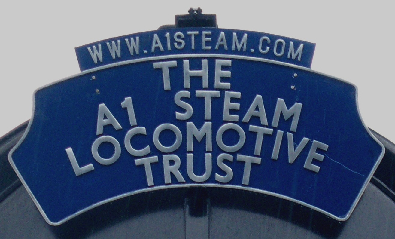 The A1 Steam Locomotive Trust's headboard on the front of 60163 Tornado, the brand new steam locomotive the Trust built